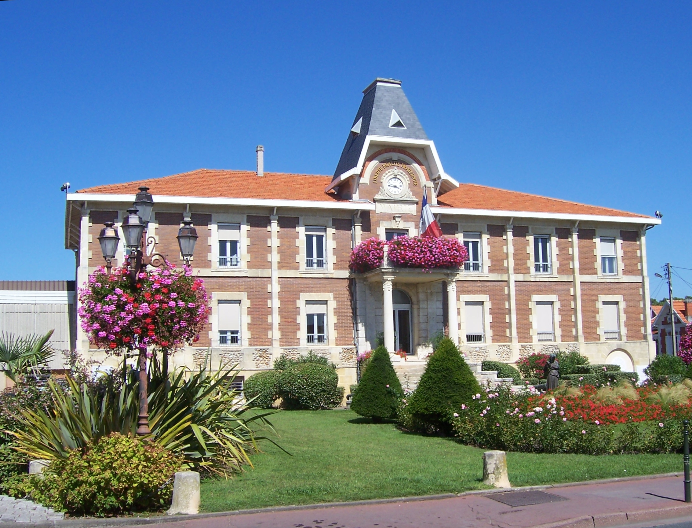 Mairie Soulac-sur-Mer, France